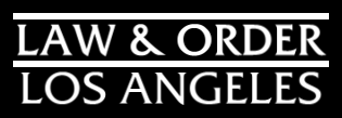 Logo from the upcoming NBC television program Law & Order: Los Angeles